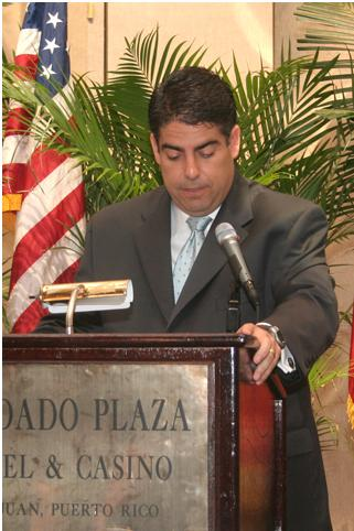 Honorable Roberto Arango, Senator of District 1, of San Juan, Puerto Rico